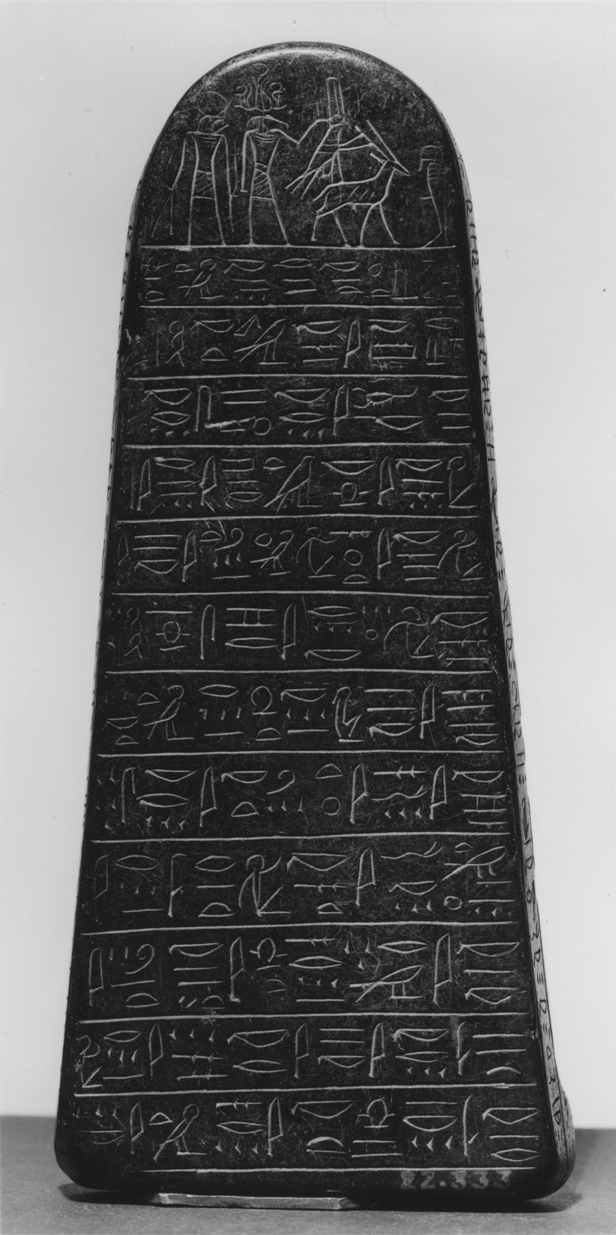 The Horus-stele, or cippus, was one of the most important items associated with magic in ancient Egypt. At the center of these stone slabs was the nude figure of the child Horus, or Harpocrates, associated with the newborn sun, with the head of the god Bes above him. Horus-the-Child, the son of Isis, stands on two crocodiles and holds dangerous animals (snake, scorpion, lion, and antelopes) in his hands, demonstrating that with supernatural powers even a child can overcome dangers. Texts and magical scenes occupy most of the empty space. Larger examples of these Horus-steles were placed in temple precincts, where priests poured water over them to absorb the magical power of the spells and images. Drinking the water, it was believed, would protect against the harmful bites of dangerous creatures as well as other dangers and evils. Smaller versions were used at home, and very small ones were worn as amulets.